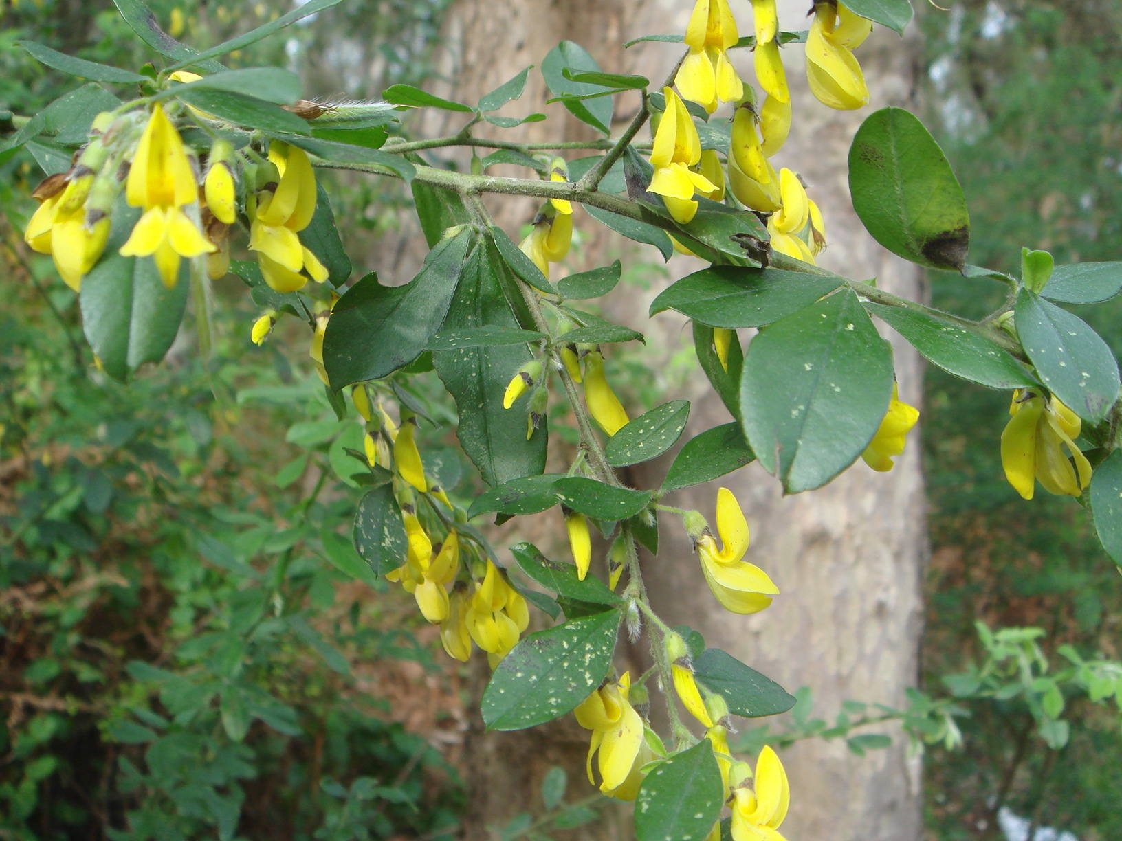 Cytisus villosus, Spain, Ceuta